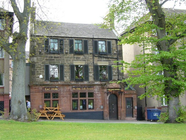 A public house that claims to have been established in 1456, although the earliest recorded mention of a tavern on Bruntsfield Links is in 1717. The interior has been modernised several times, leaving no trace of the past.